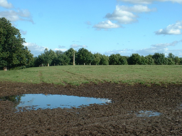 Farmland around the Obelisk. On the land of Rhual farm. A note in a Victoria Welsh Society Newsletter, by Trevor Lloyd Jones, says: "In 1951 the National Eisteddfod was held on a field in Maesgarmon. Up the hill from where the Eisteddfod occurred there is an obelisk. The Latin inscription on this ancient monument tells of a battle fought in A.D. 420 between the local people under Saint Germanus and the heathen Picts and Saxons. The locals were greatly outnumbered but Germanus, knowing that sounds echoed and echoed in this place, gave the signal for his followers to rise and face the enemy with a howling cry of Hallelujah, where upon the attacking forces fled in alarm! "